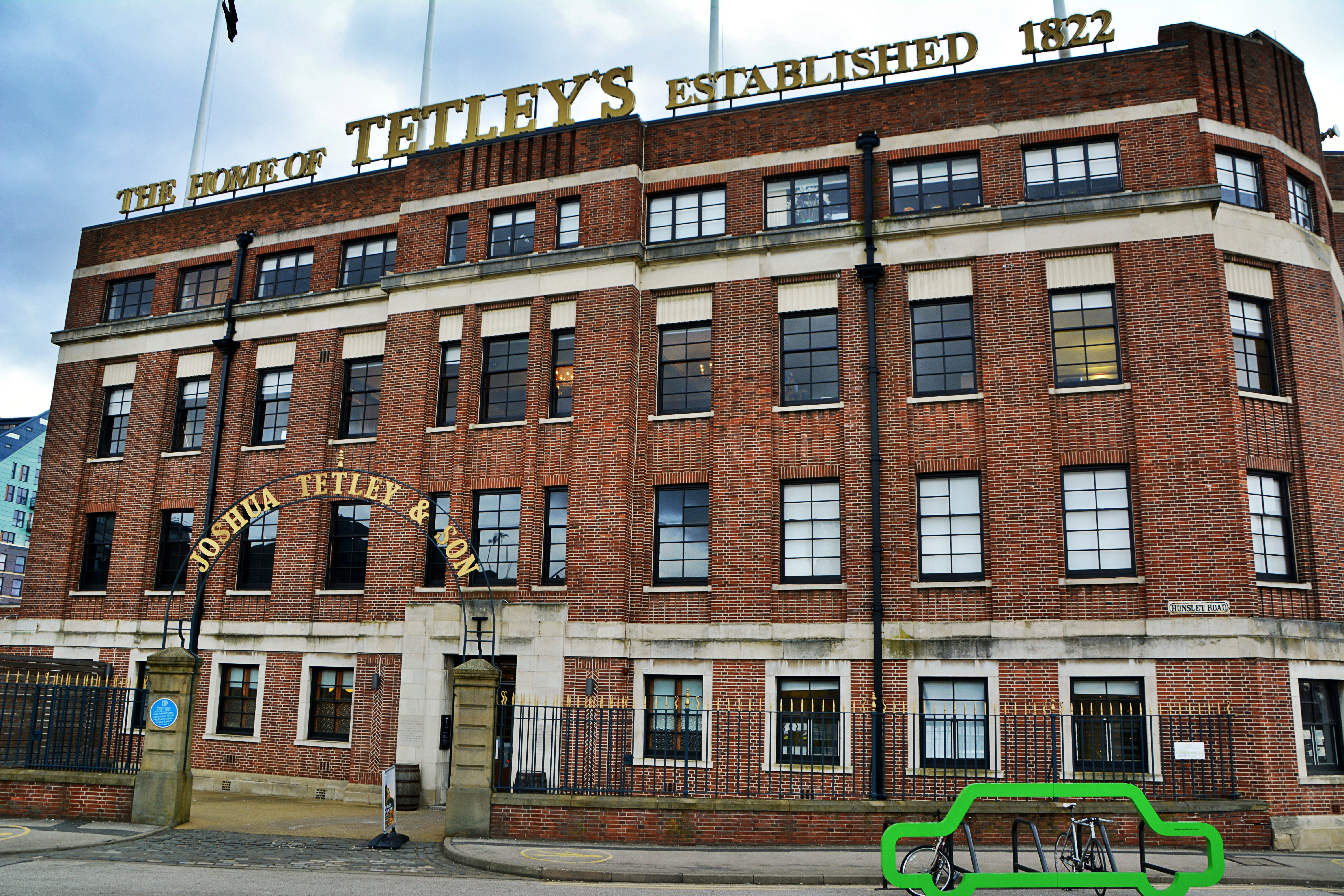 The Tetley...